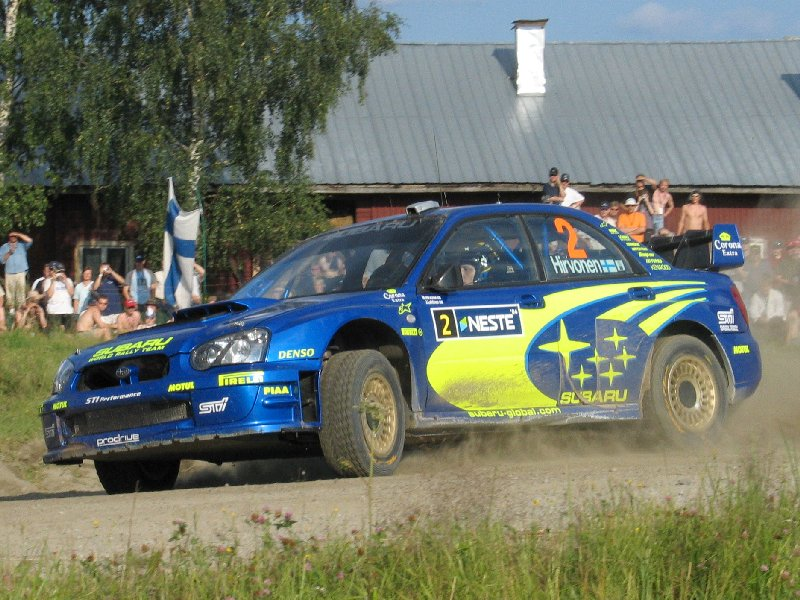 Mikko Hirvonen driving his Subaru Impreza WRC2004 at the 2004 Rally Finland.